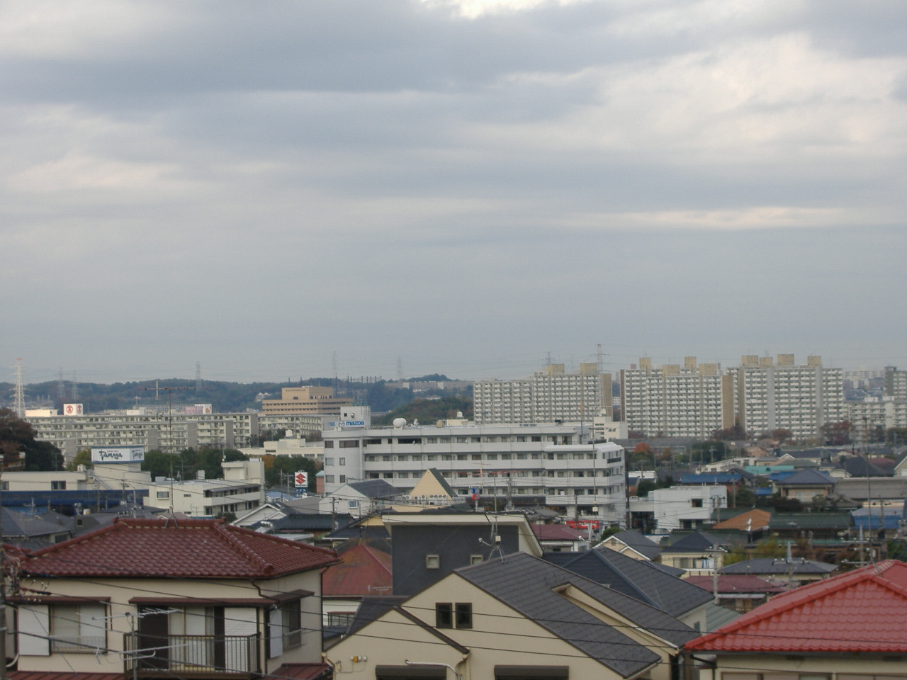 Kōnandai (Yokohama, Japan)